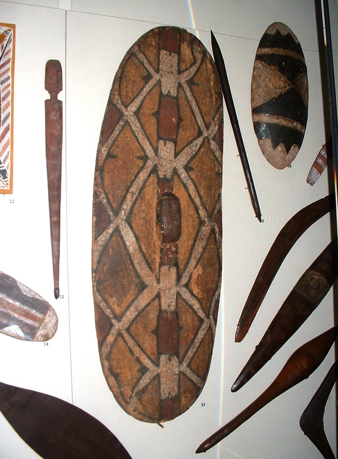 Australian Aboriginal shield. Photographed at the Royal Albert Memorial Museum & Art Gallery (RAMM) on 21-Feb-06. Legend reads: Shield (Darkur). North Queensland. Covering of softwood, with a large flat ovate shape. Used with the sword, number 20. The meaning of the painted decoration is now lost. Collected before 1934. Wrightson collection.